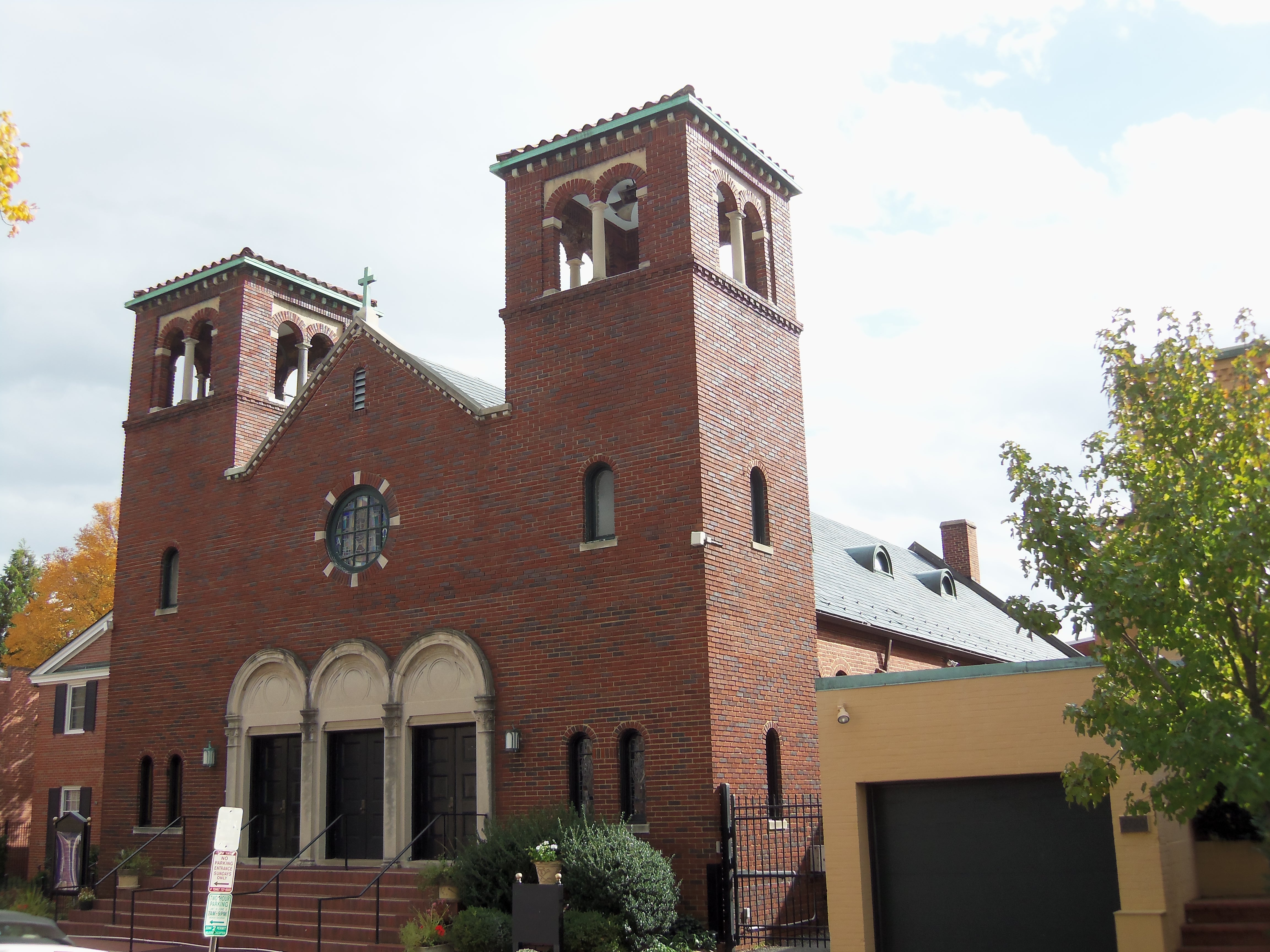 Epiphany Catholic Church in Georgetown, Washington, DC.